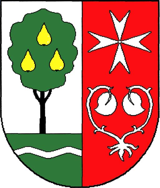 Municipal coat of arms of Hrušky village, Vyškov District, Czech Republic.